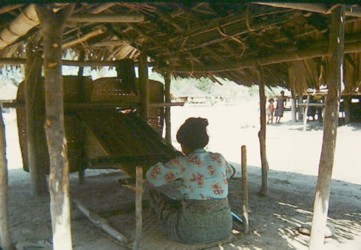 Woman on a hand loom in Suai/East Timor